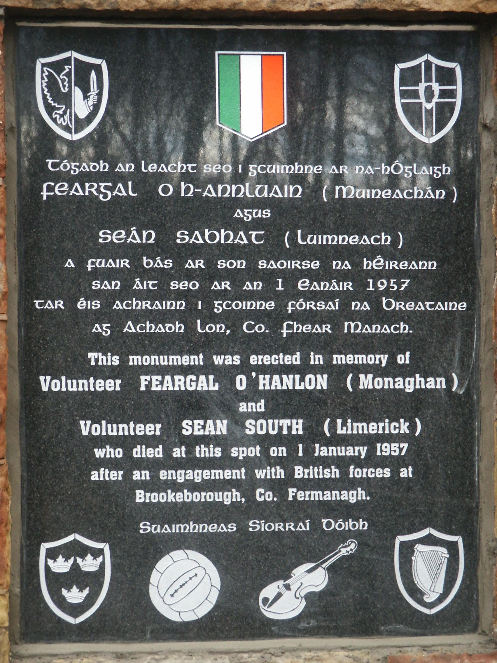 Memorial Stone to Sean South and Fergal O'Hanlon at Moane's Cross, Fermanagh